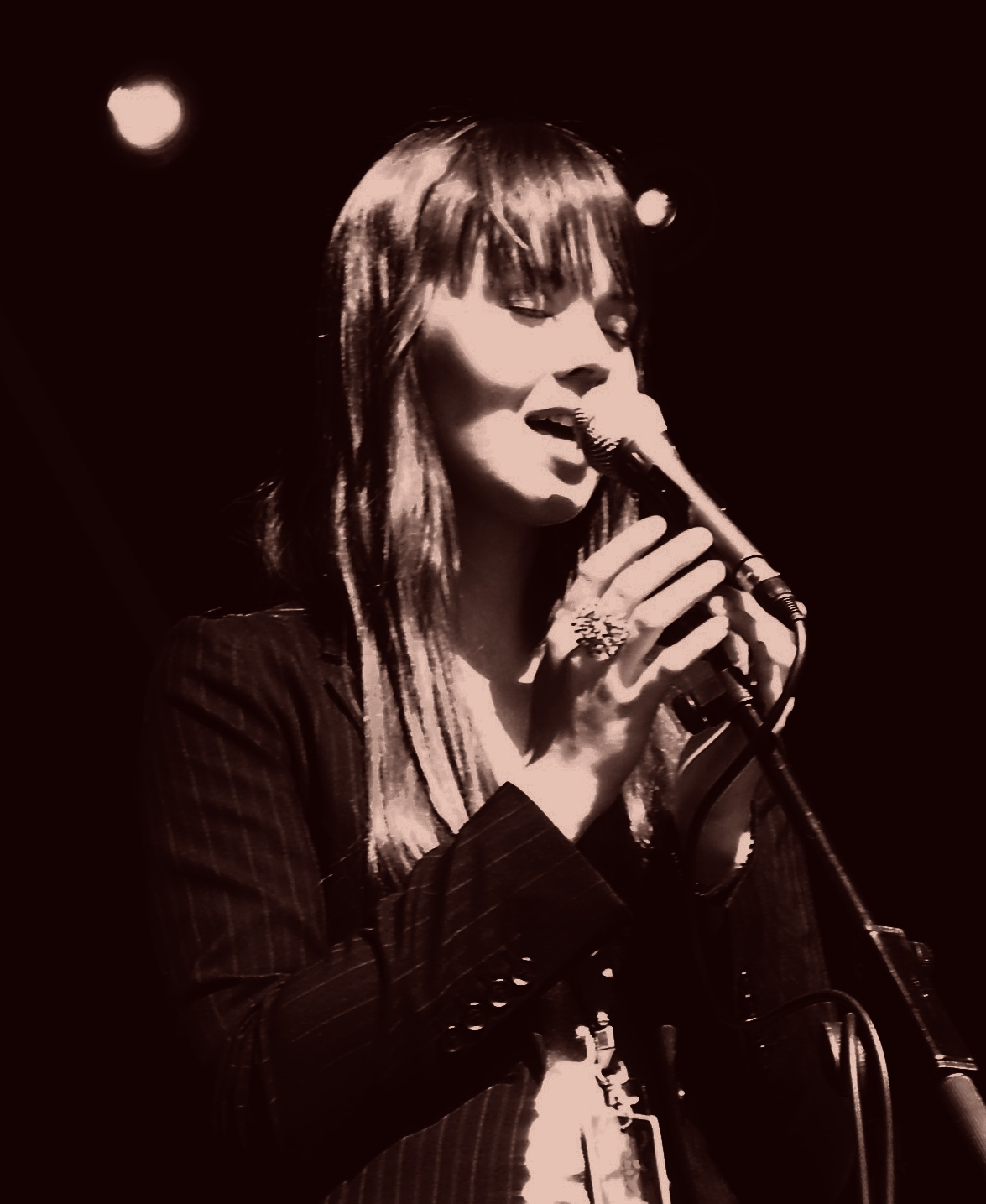 Johanna Kurkela in PowerPark